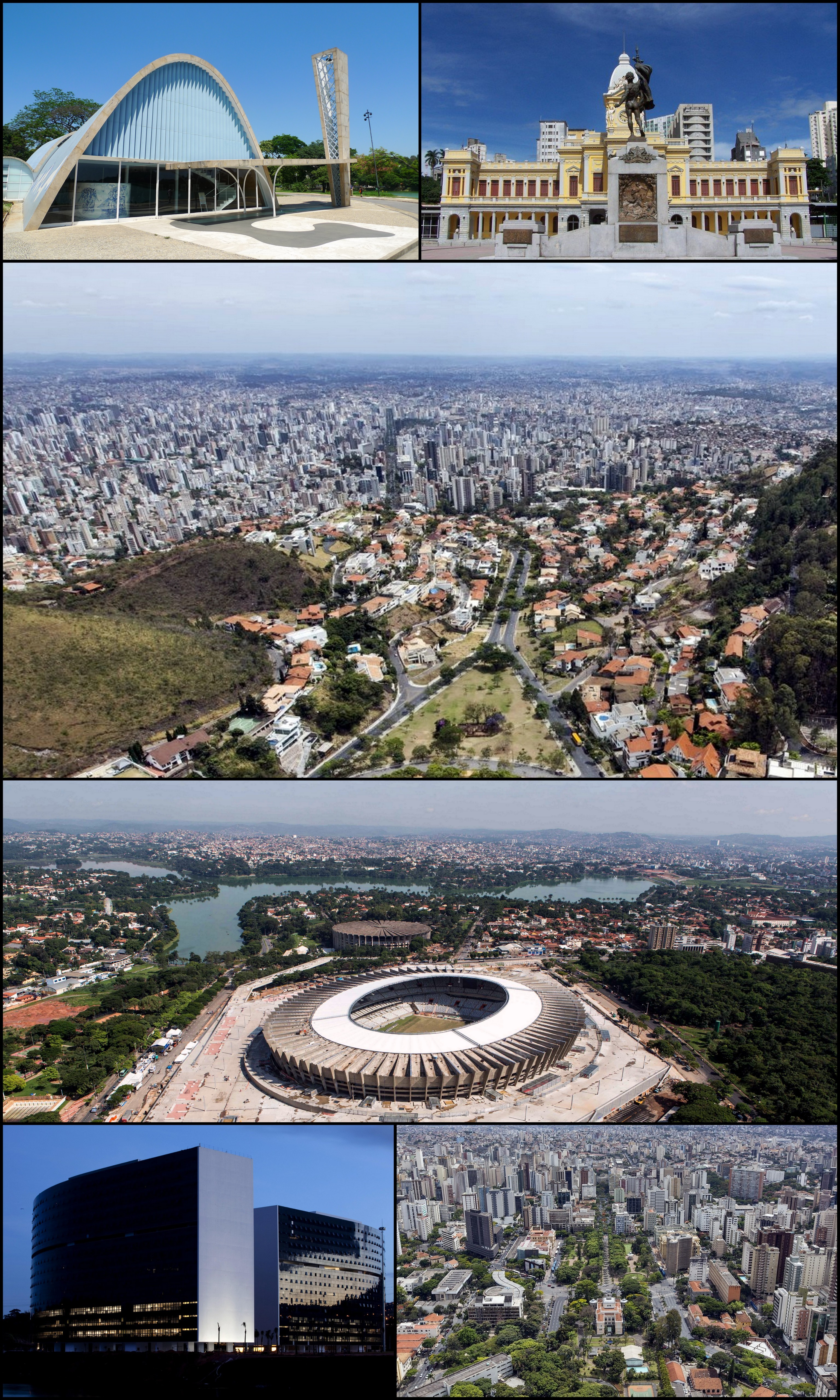 Montage of Belo Horizonte